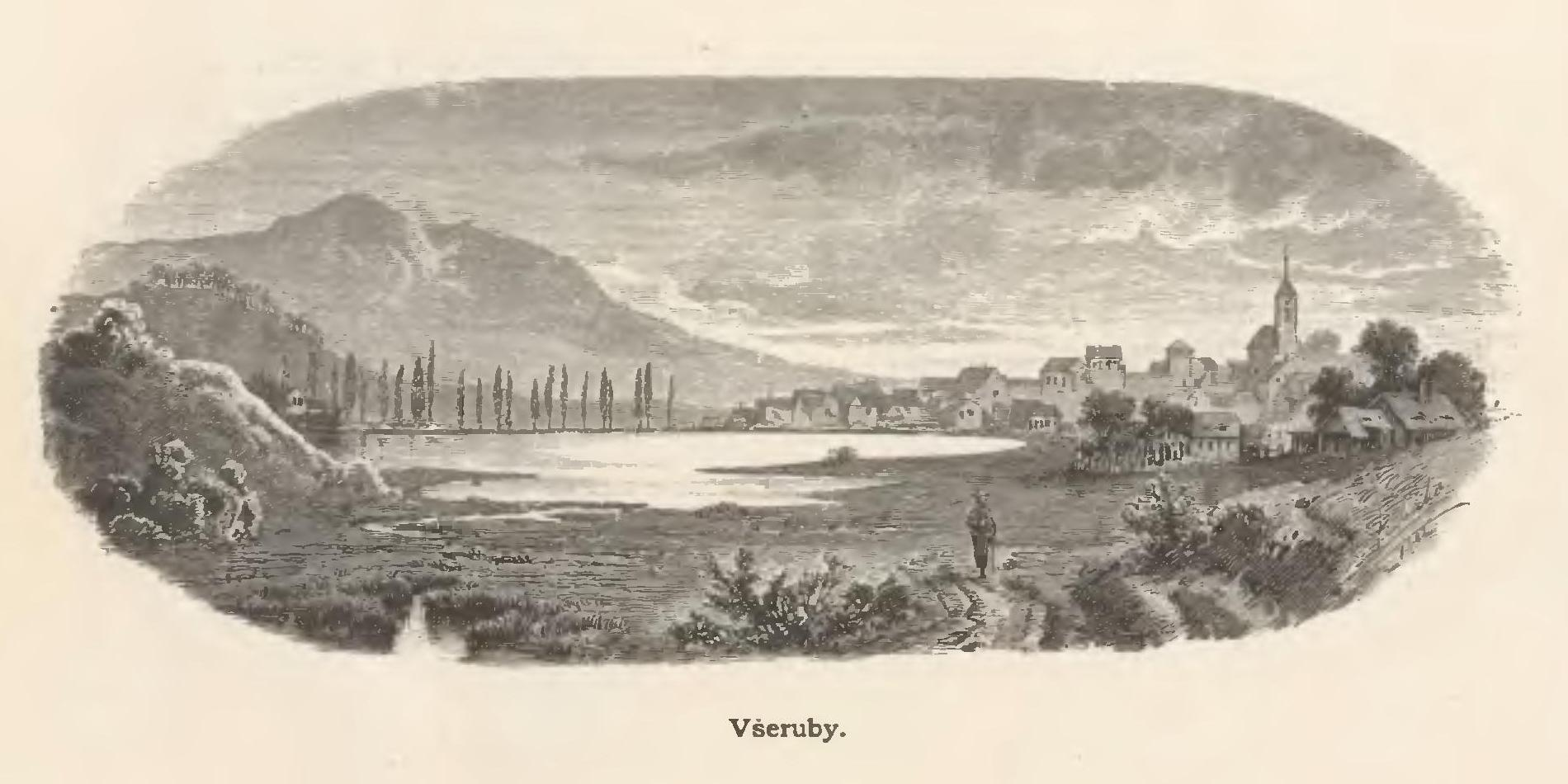 View of Všeruby, a village in Šumava mountains.